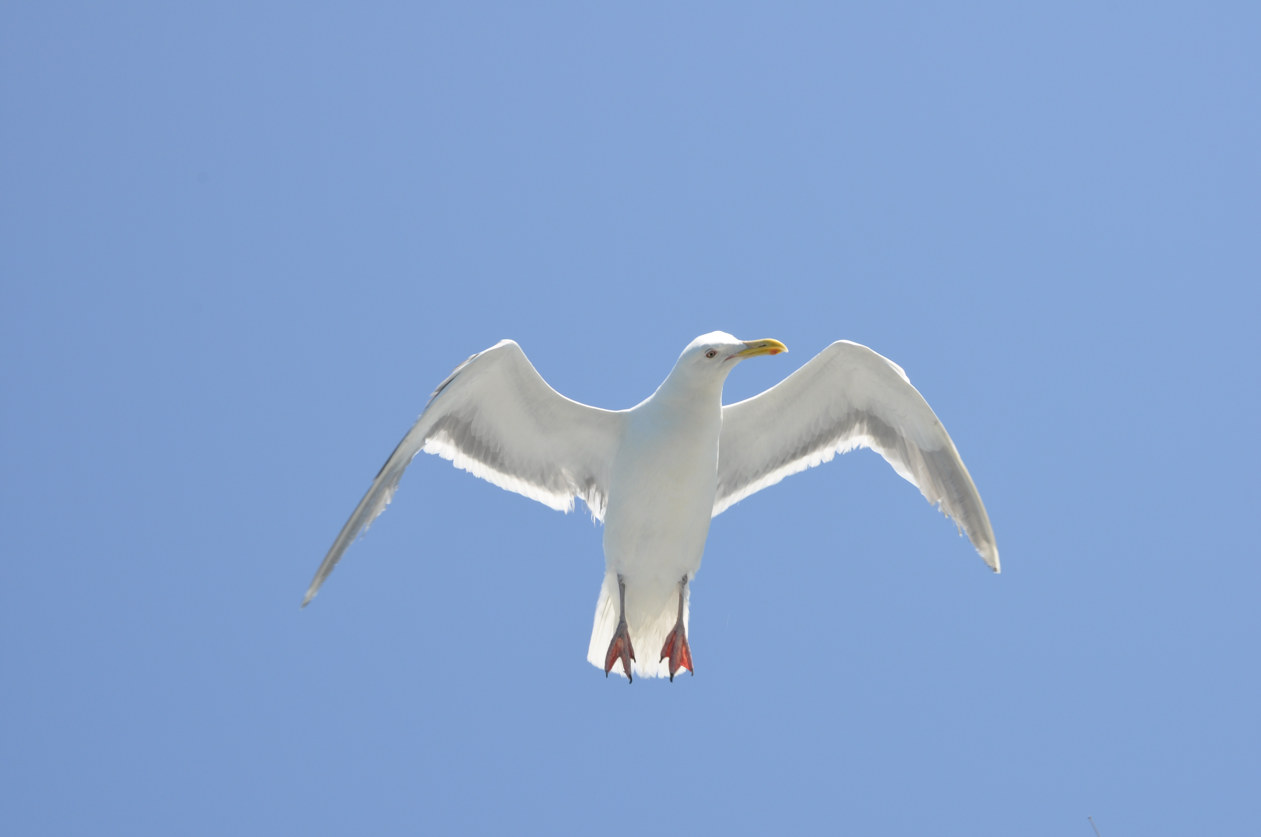 Glaucous-winged Gull in flight over Puget Sound, Washington, USA.